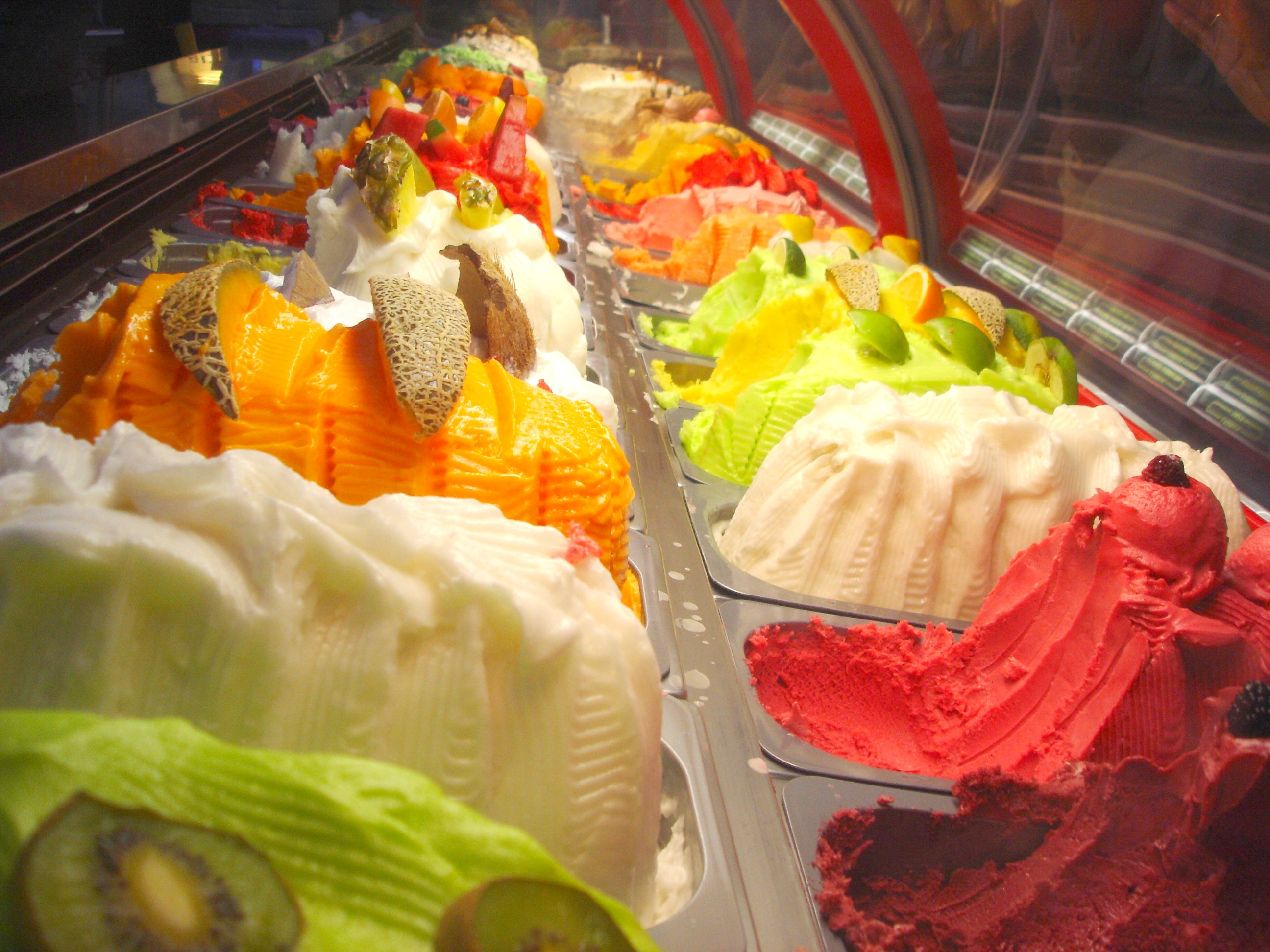 Gelato in Las Vegas in 2007